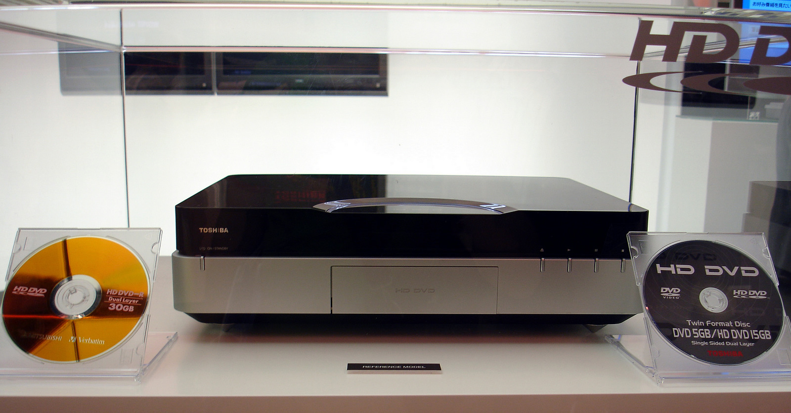 HD-DVD player HBS-A-001 (Toshiba). Also presenting a dual layer HD-DVD with 30GB capacity and a Twin HD-DVD with one DVD layer with 5GB and one HD-DVD layer with 15GB capacity. Taken on the Toshiba booth on the consumer electronics fair IFA2005 in Berlin.